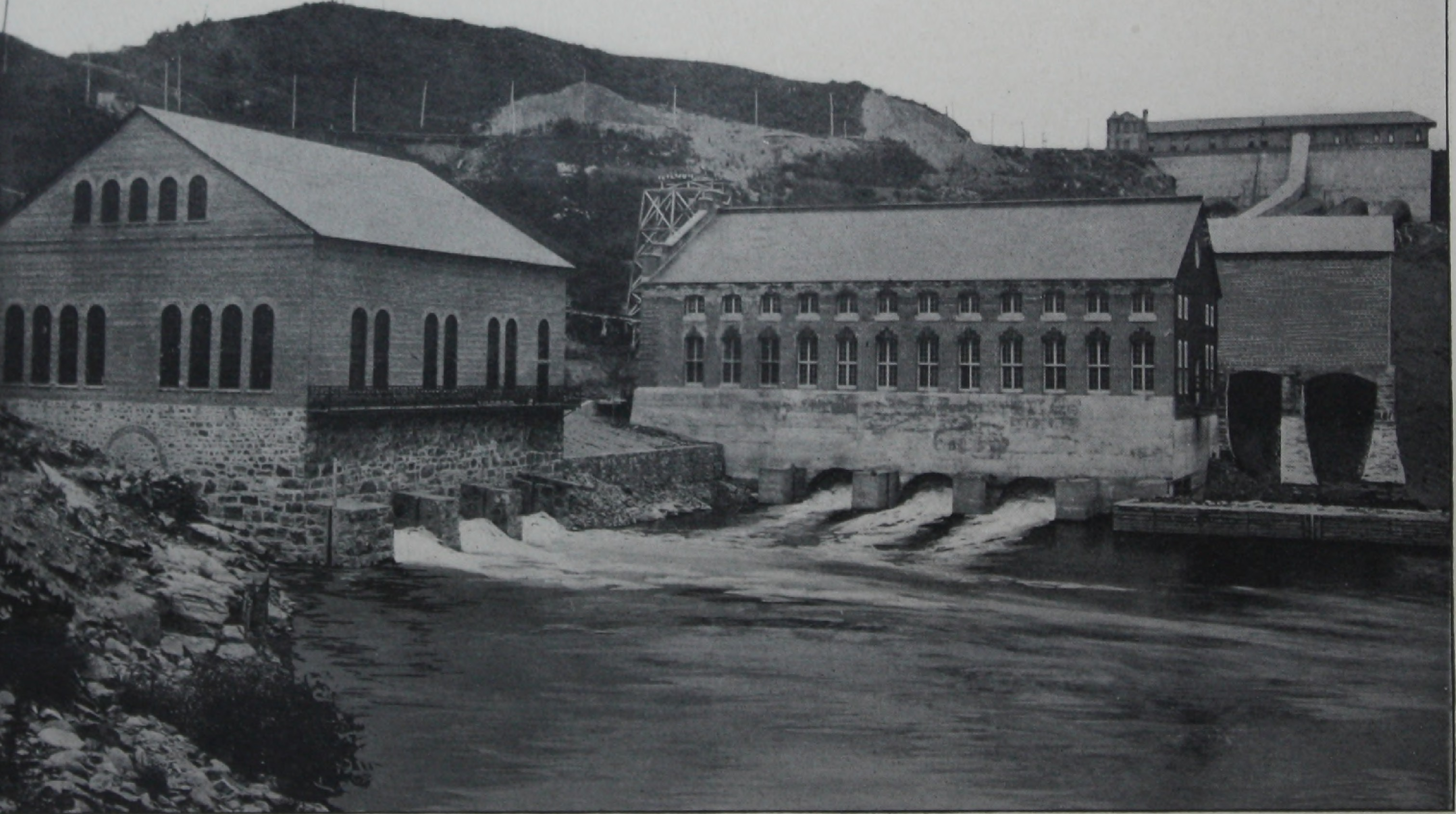 Title: The Shawinigan Water and Power Company : its property and plant. Year: 1907 (1900s) Authors: The Shawinigan Water And Power Company Subjects: house plans -- catalogs domestic architecture -- catalogs roofing -- catalogs Division 07 steep slope roofing shingles and shakes asphalt shingles Publisher: The Shawinigan Water and Power Co. Text Appearing Before Image: o s Text Appearing After Image: 2 ■ \* I i